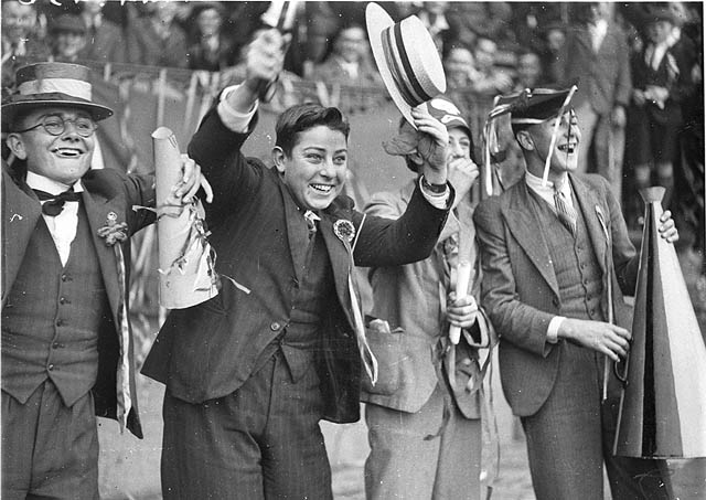 Image title:Canterbury Boys' High cheer squad at Combined High School sports; Student cheer squad of Canterbury Boys' High School at the Combined High School sports carnival, 1934.